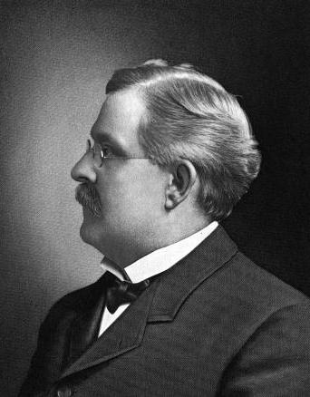 George Washington Earle, head of the Wisconsin Land and Lumber Company